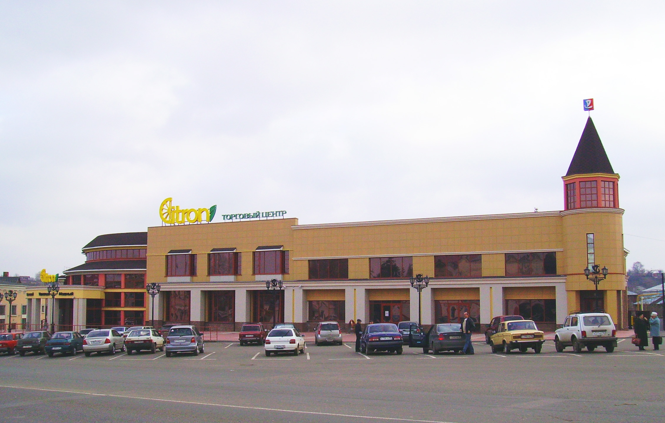 CITRON Shopping Centre